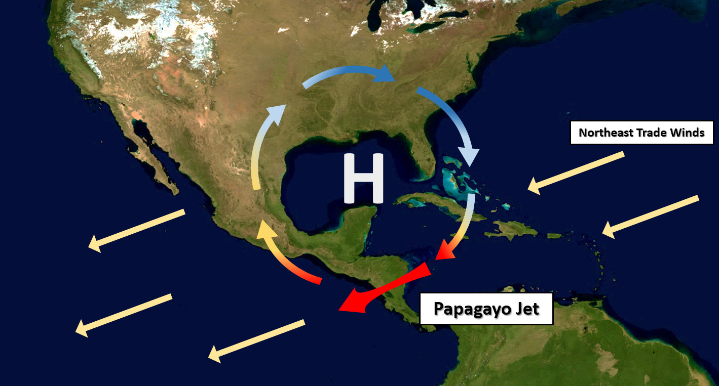 An NASA satellite image was annotated to demonstrate a cartoon high-pressure system that would influence the formation of the Papagayo jet. As the cold air from the North American continent meets the warm moist air of the Caribbean a large pressure gradient is established and the air flows quickly over Nicaragua and Costa Rica into the Pacific. The large Cordillera mountains block this wind and as a result it is funneled through a narrow pass in the mountains. This funneled wind is called the Papagayo jet.